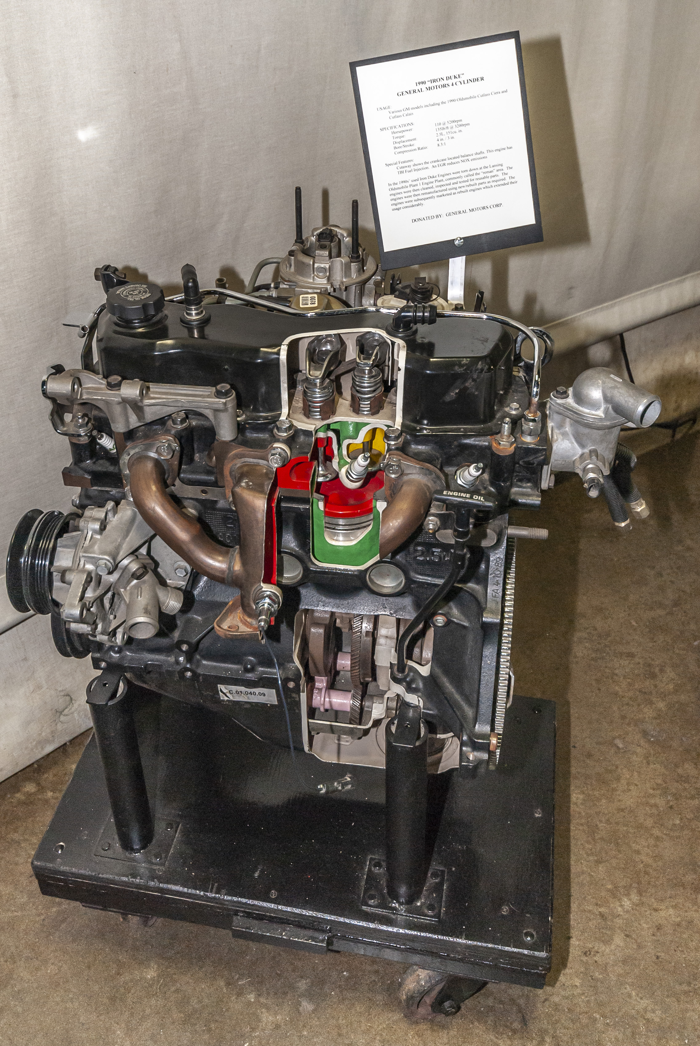 In this exhibit at the REO Museum in Lansing Michigan you can see a 1990 GM Iron Duke engine with parts cut away to reveal the inner arrangement.